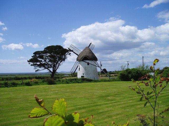 Tacumshane windmill